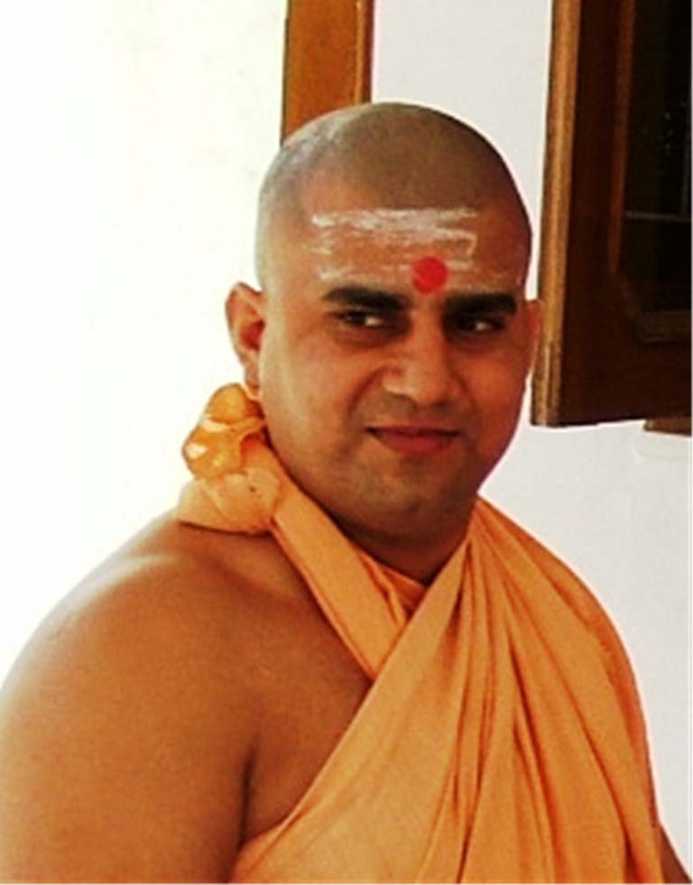 Shri Anantbodh Chaitanya